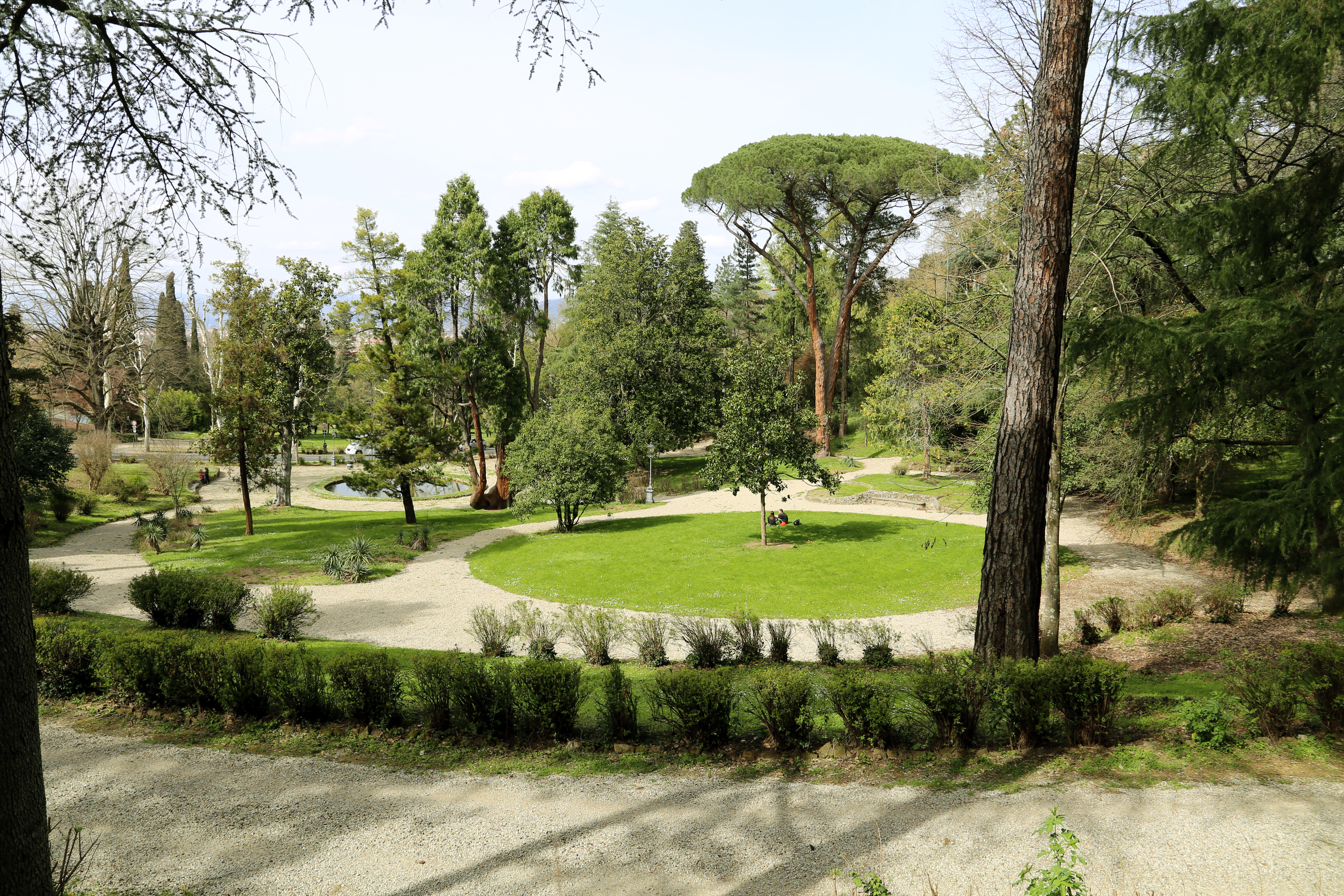 Bobolino